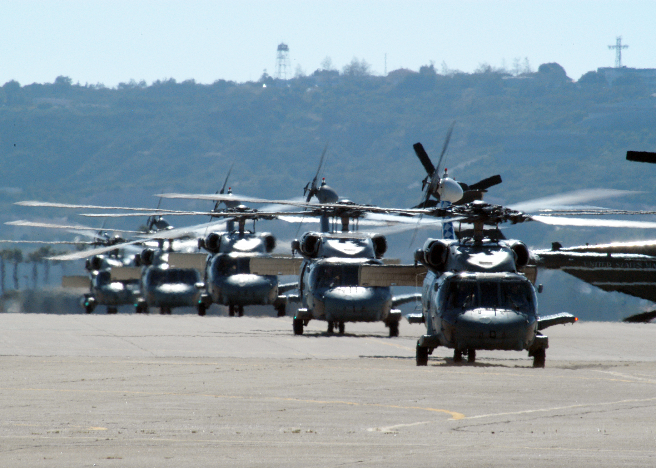 Naval Air Station North Island San Diego, Calif. (May 1, 2003) -- Five SH-60B Seahawks from the Black Knights of Helicopter Anti-Submarine Squadron Four (HS-4) taxi to their hangar after arriving at NAS North Island. HS-4 is part of Carrier Air Wing Fourteen (CVW-14) aboard USS Abraham Lincoln (CVN 72) returning home from a nine month deployment supporting coalition forces during Operations Enduring Freedom and Iraqi Freedom. U.S. Navy photo by Photographer's Mate 3rd Class LaQuisha S. Davis. (RELEASED)